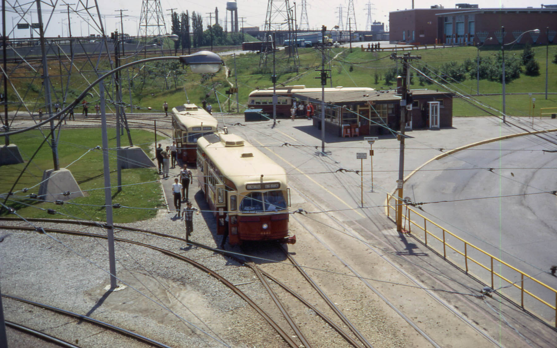 19680707 26 TTC 4442 4226 4720 at Humber Loop in Toronto